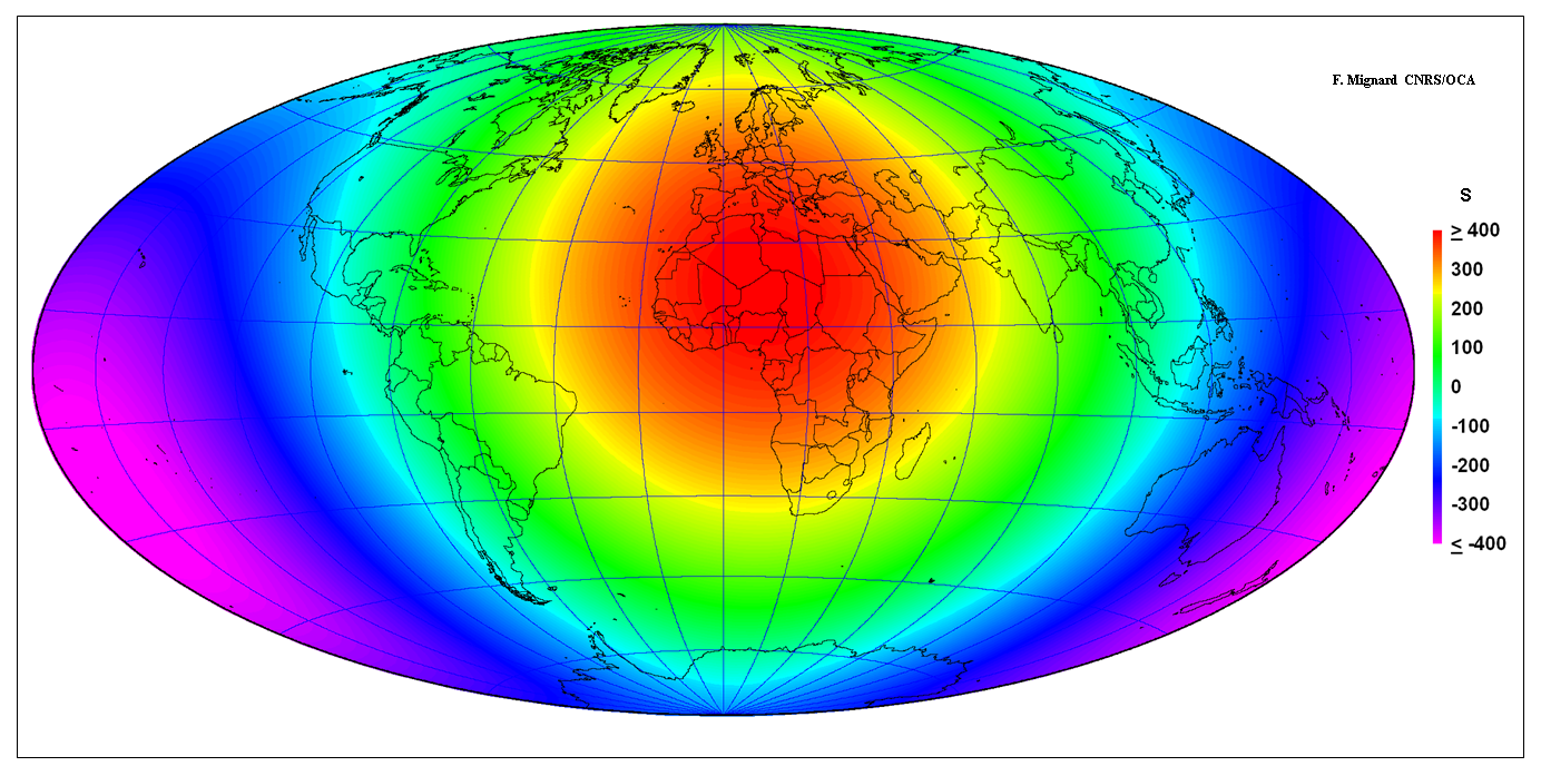 Offset between the topocentric and geocentric third contact of Venus with the solar disk for the Venus transit of June 2012